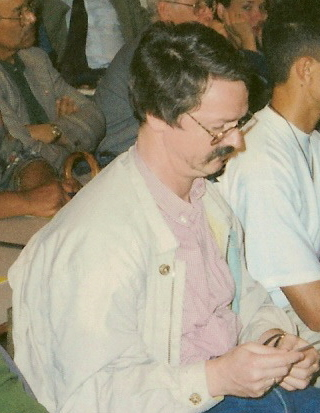 Govert Zijlmans, Dutch book antiquarian, Amsterdam, June 16th 1995